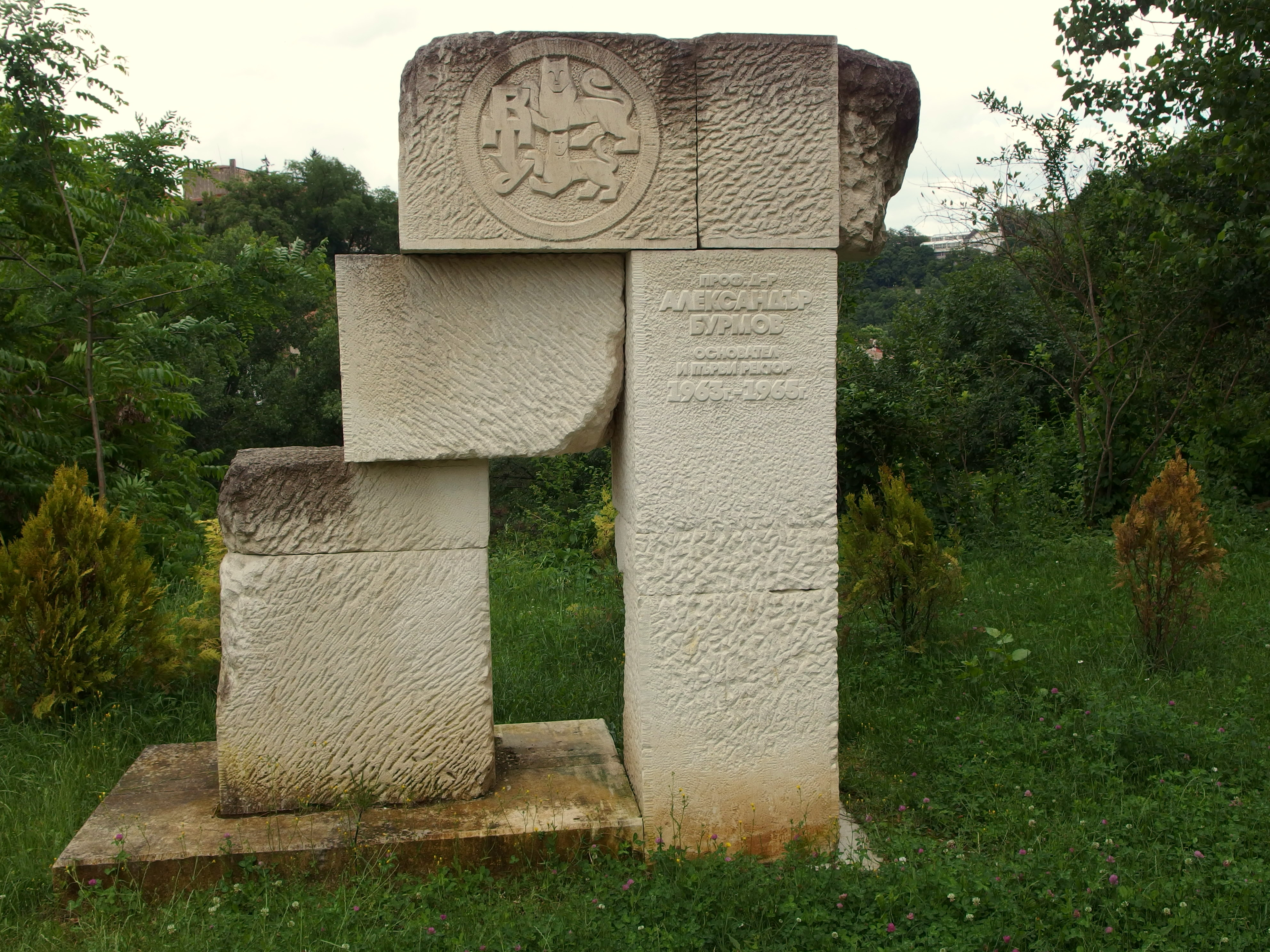 2014-06-21 in Veliko Tarnovo.